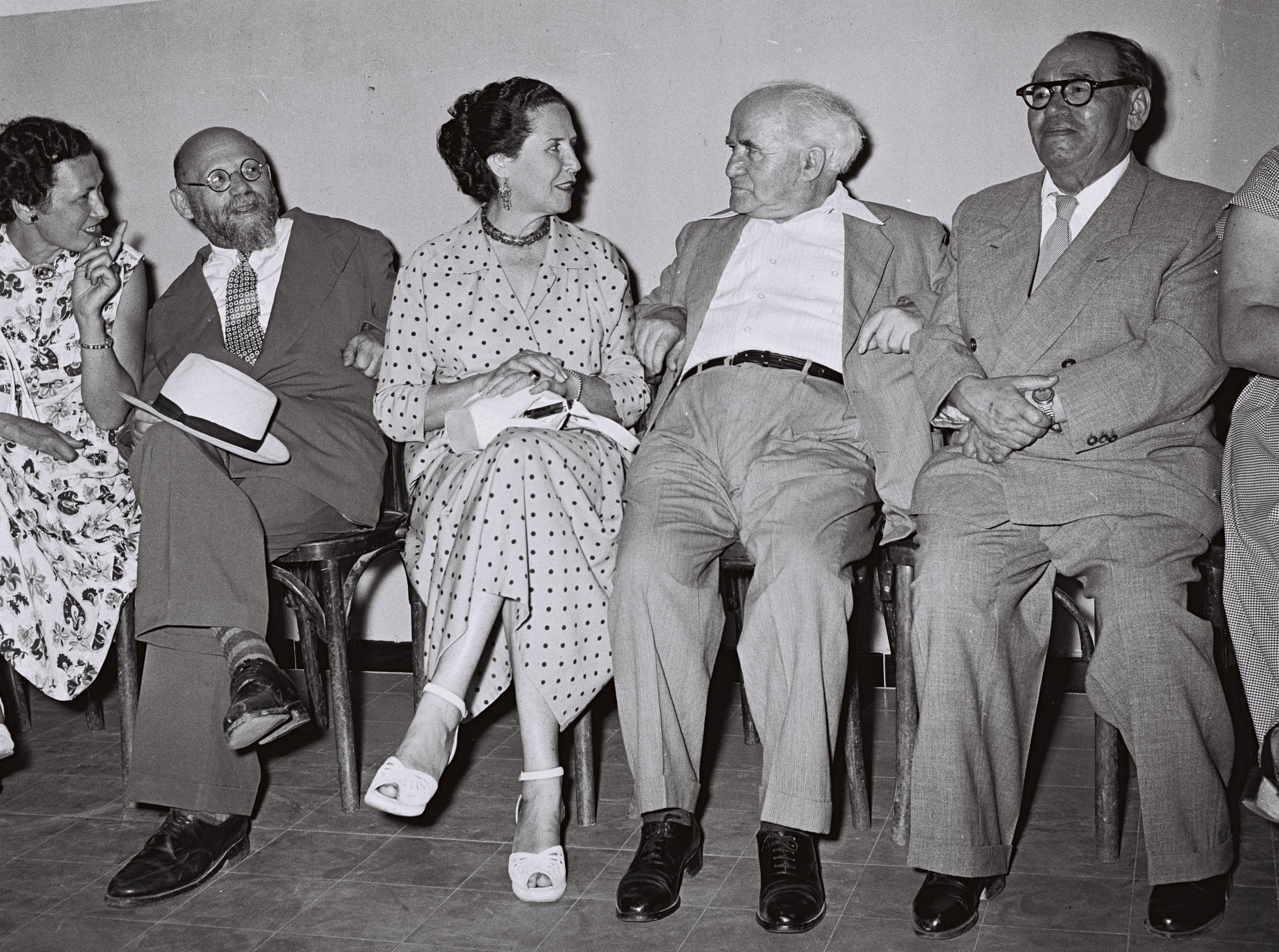 FROM LEFT: P.M. DAVID BEN GURION SITTING NEXT TO ACTRESS HANNA ROVINA, EDUCATION CULTURE MIN. BEN ZION DI-NUR. משמאל לימין: רהמ דוד בן גוריון לצד השחקנית חנה רובינא ושר התרבות בן-ציון דינור Photo: Hans Pinn (1916–1978) Alternative names הנס פין; פין, חיים; פין, הנס; פין, ה. חיים; Hans Chaim Pinn; Pinn, Hans H; Pinn, H. Hayim; Pin, H. Ḥayim; Fin, H. Ḥayim; Hans H. Pinn; H. Ḥayim Pin; Piyn, Ḥayyim; Pinn, ChaimDescriptionIsraeli photographerDate of birth/death 16 November 1916 30 May 1978 / 13 May 1978Location of birth/death Berlin HerzliyaAuthority control : Q16129161 VIAF: 51249035 ISNI: 0000 0001 1234 9240 ULAN: 500479725 LCCN: no90017900 Open Library: OL6752235A WorldCat creator QS:P170,Q16129161 , 07/02/1953